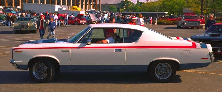 1970 "The Machine" - a special model of the AMC Rebel two-door hardtop produced by American Motors Corporation (AMC). This is a factory built classic American "Muscle Car" with AMC's 390 cu. in. displacement (6.4 L) V8 engine producing 340 hp (254 kW) and 430 pound-feet of torque @ 3600 rpm. This is one of the original production versions in white with the "glow in the dark" red-white-blue color stripes and standard hood scoop and rocker panels finished in "Electric Blue." Picture taken at the show field during the annual AACA October meet held in Hershey, PA.